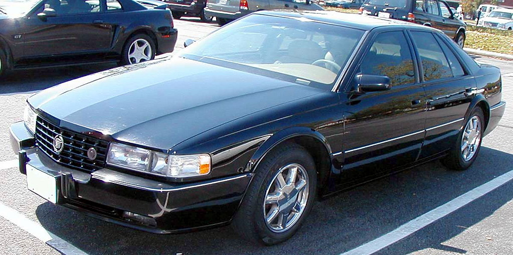 1992-1997 Cadillac Seville photographed in USA.